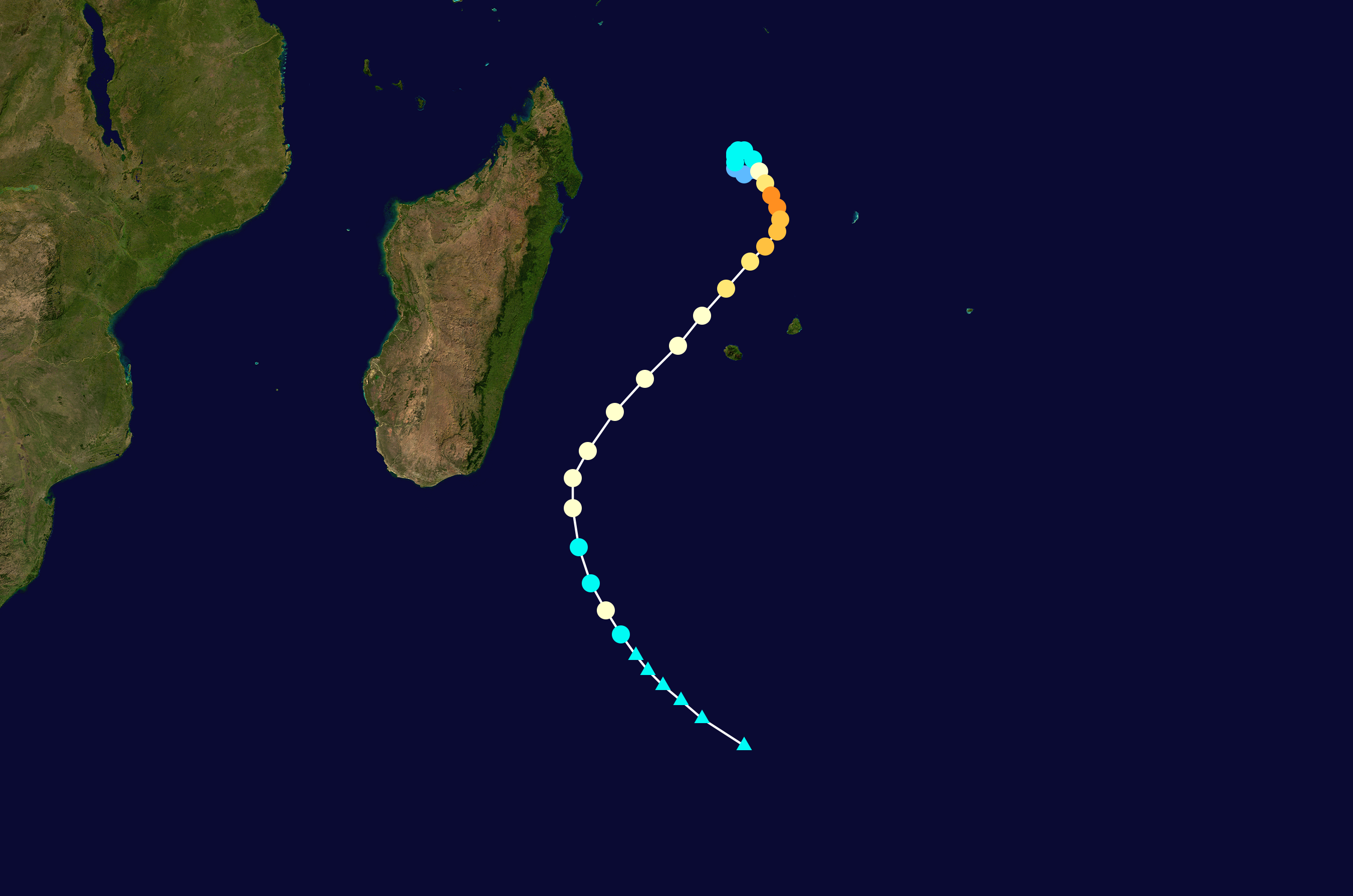 Track map of Intense Tropical Cyclone Connie of the 1999-2000 South-West Indian Ocean cyclone season. The points show the location of the storm at 6-hour intervals. The colour represents the storm's maximum sustained wind speeds as classified in the Saffir–Simpson scale (see below), and the shape of the data points represent the nature of the storm, according to the legend below. Saffir–Simpson scale Tropical depression≤38 mph≤62 km/h Category 3111–129 mph178–208 km/h Tropical storm39–73 mph63–118 km/h Category 4130–156 mph209–251 km/h Category 174–95 mph119–153 km/h Category 5≥157 mph≥252 km/h Category 296–110 mph154–177 km/h Unknown Storm type Tropical cyclone Subtropical cyclone Extratropical cyclone / Remnant low / Tropical disturbance